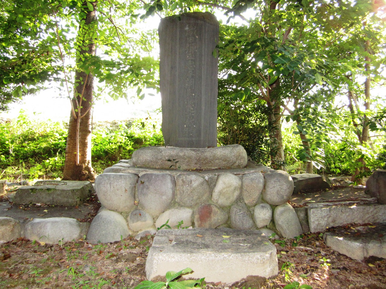 Shobata Castle Site in Aisai, Aichi prefecture